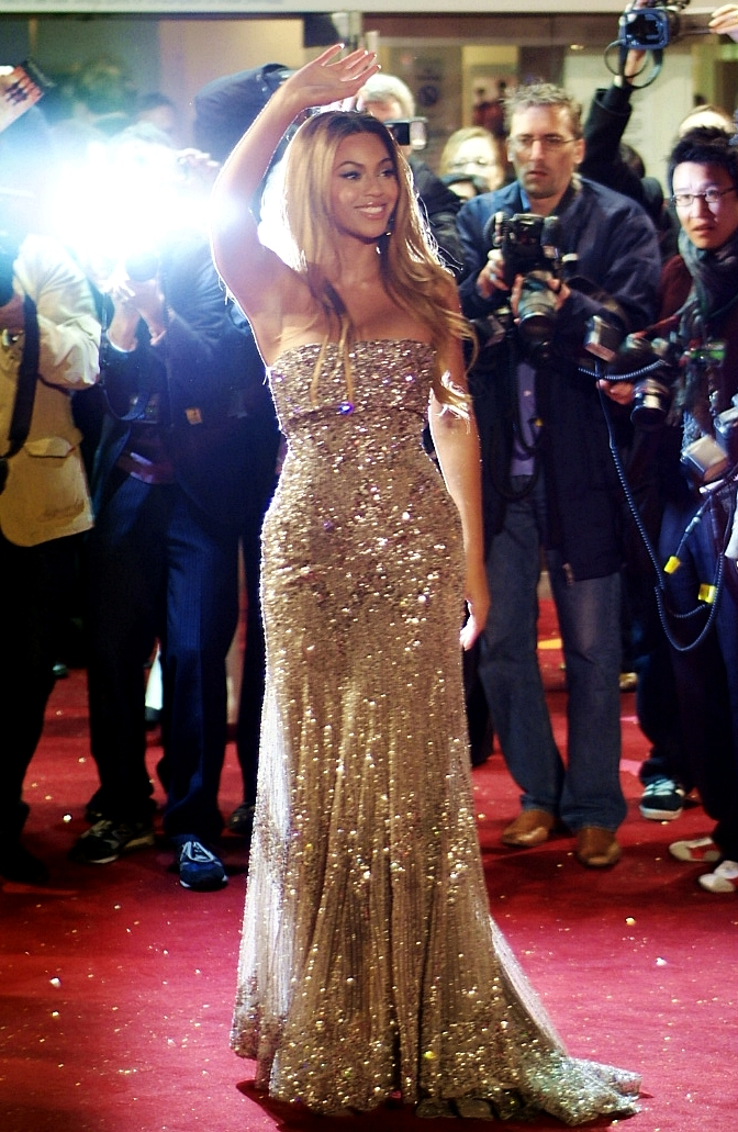 Beyoncé Knowles at Dreamgirls Premiere in 2007.